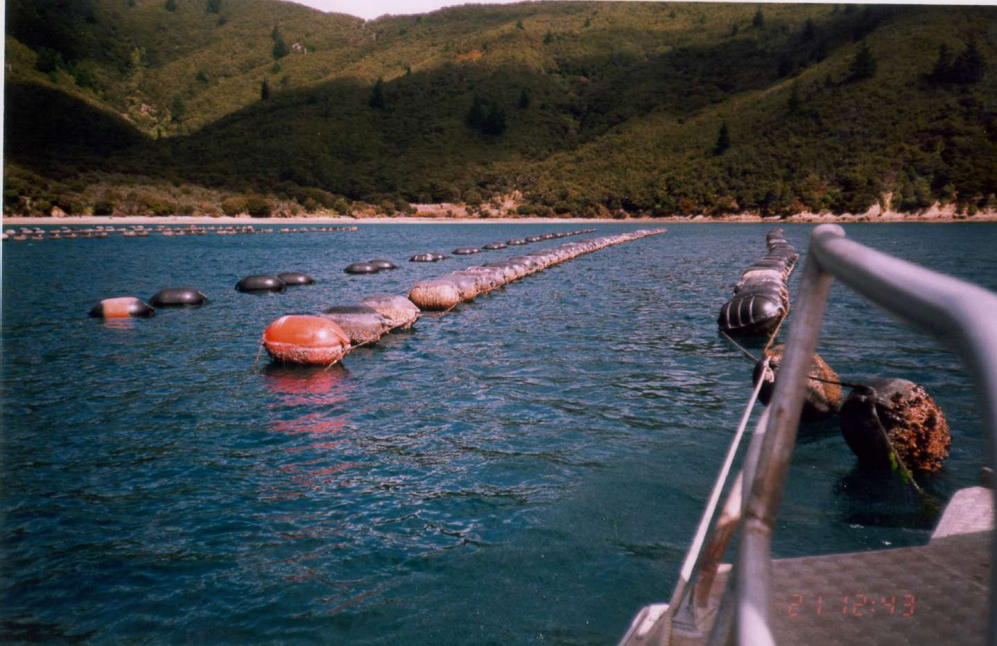 A vessel tied up against a mussel long line in Beatrix Bay, Pelorus Sound.